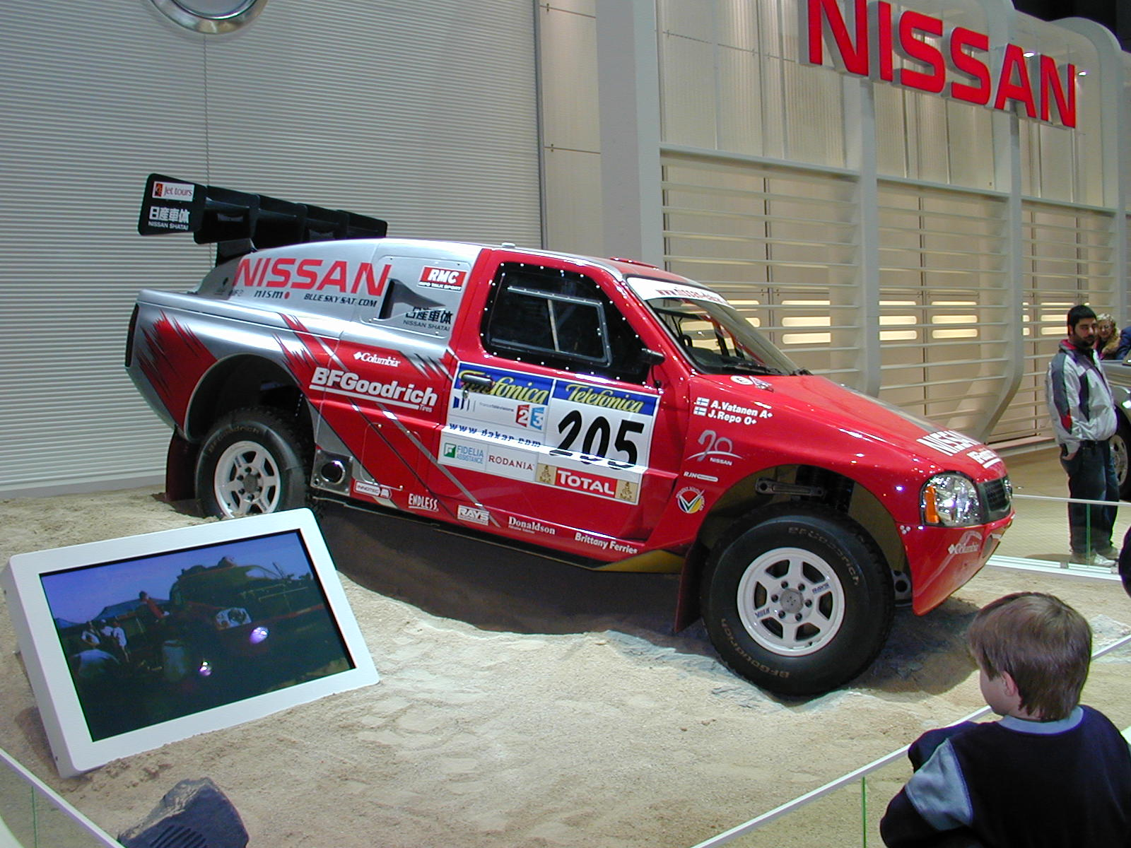 Salon de Genève 2004 SAG2004 132 Nissan Paris-Dakar. The vehicle was driven by Ari Vatanen / Juha Repo.